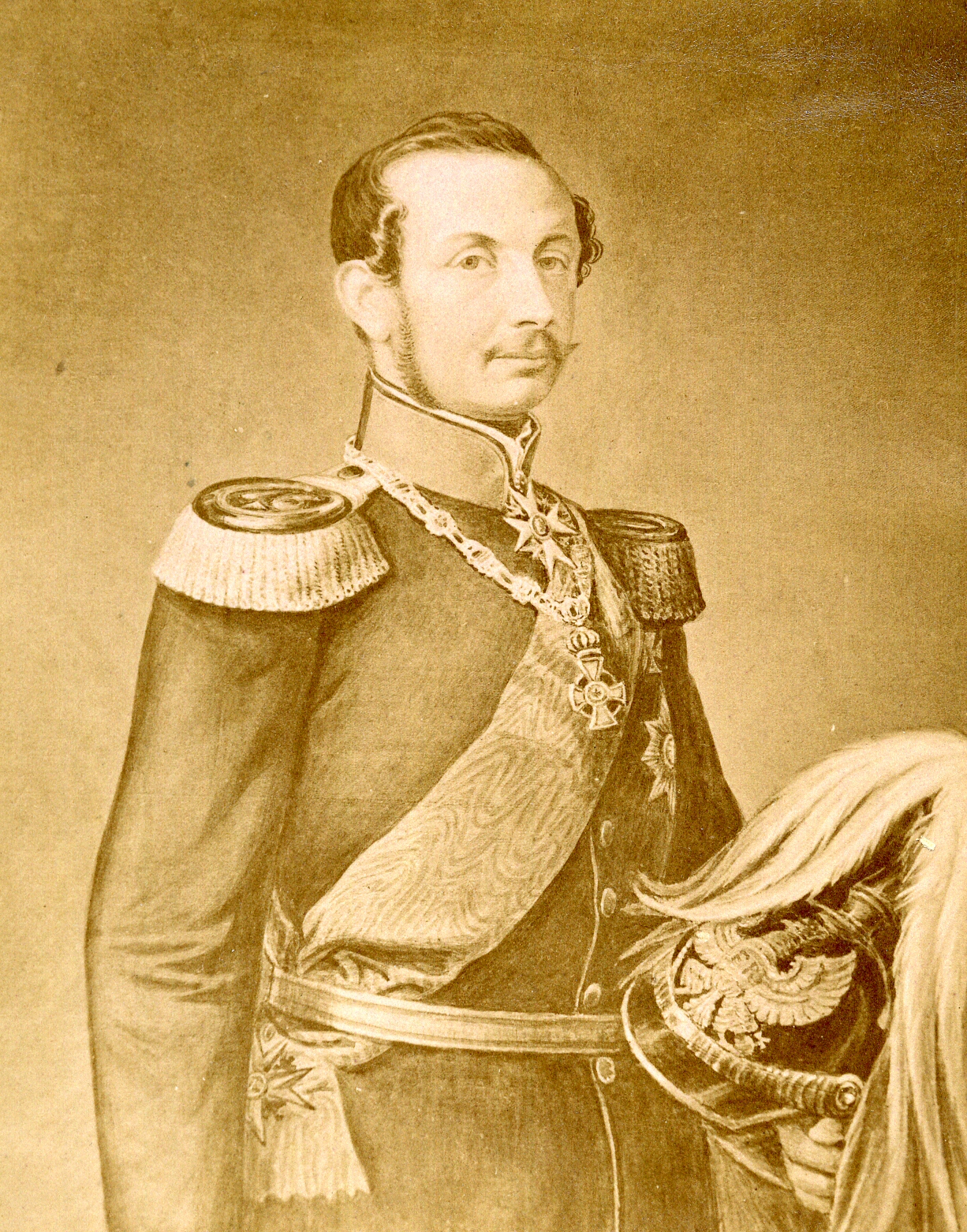 Alexander von Preußen, Prussian general